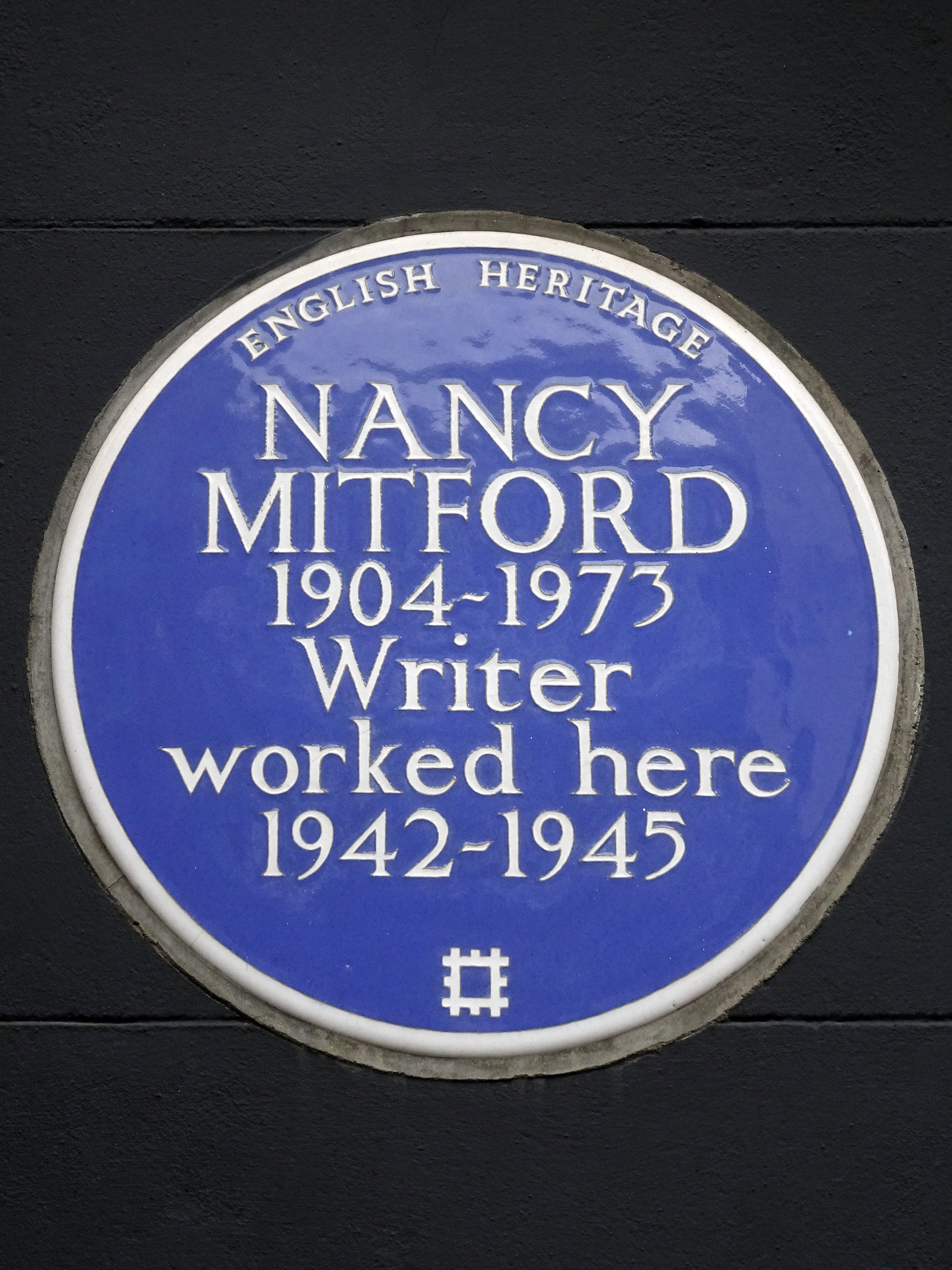 Blue plaque erected in 1999 by English Heritage at 10 Curzon Street, Mayfair, London W1J 5HH, City of Westminster